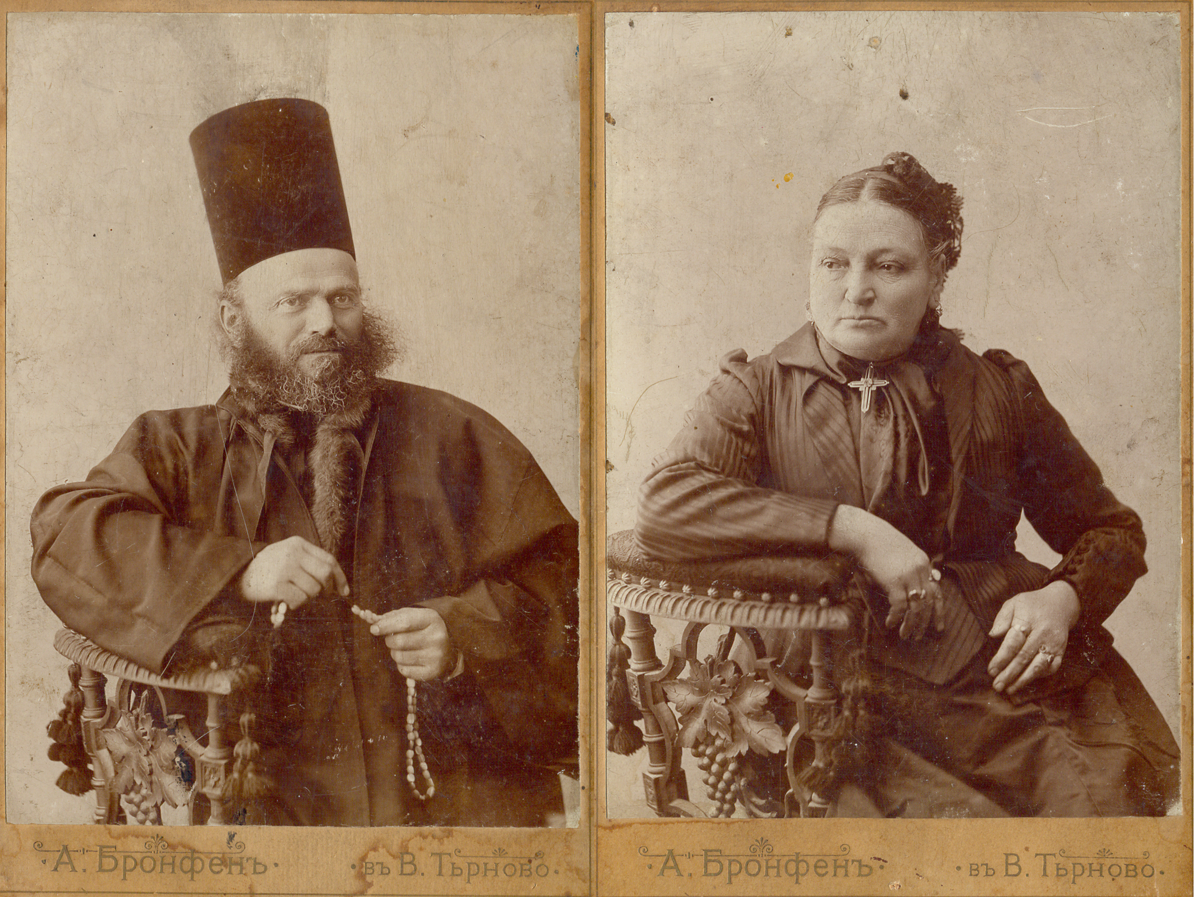 Ivanka and Pench Rachov, parents of Rafail Popov